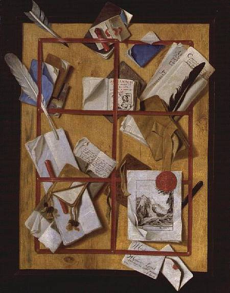 Jean-François de Le Motte. Trompe l'Oeil (oil on canvas) by Le Motte, Jean-Francois de (17th century), oil on canvas, Musee de l'Hotel Sandelin, Saint-Omer, France